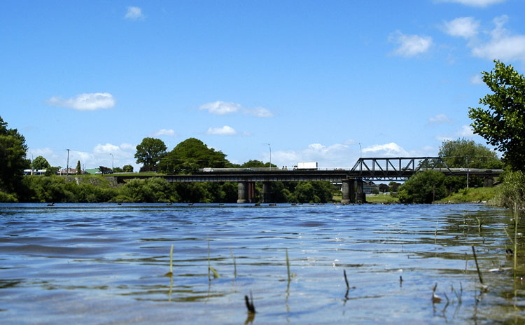 Waikato River, New Zealand, at Ngaruawahia in 2003, taken at the "Point" near where the Waipa River joins the Waikato.